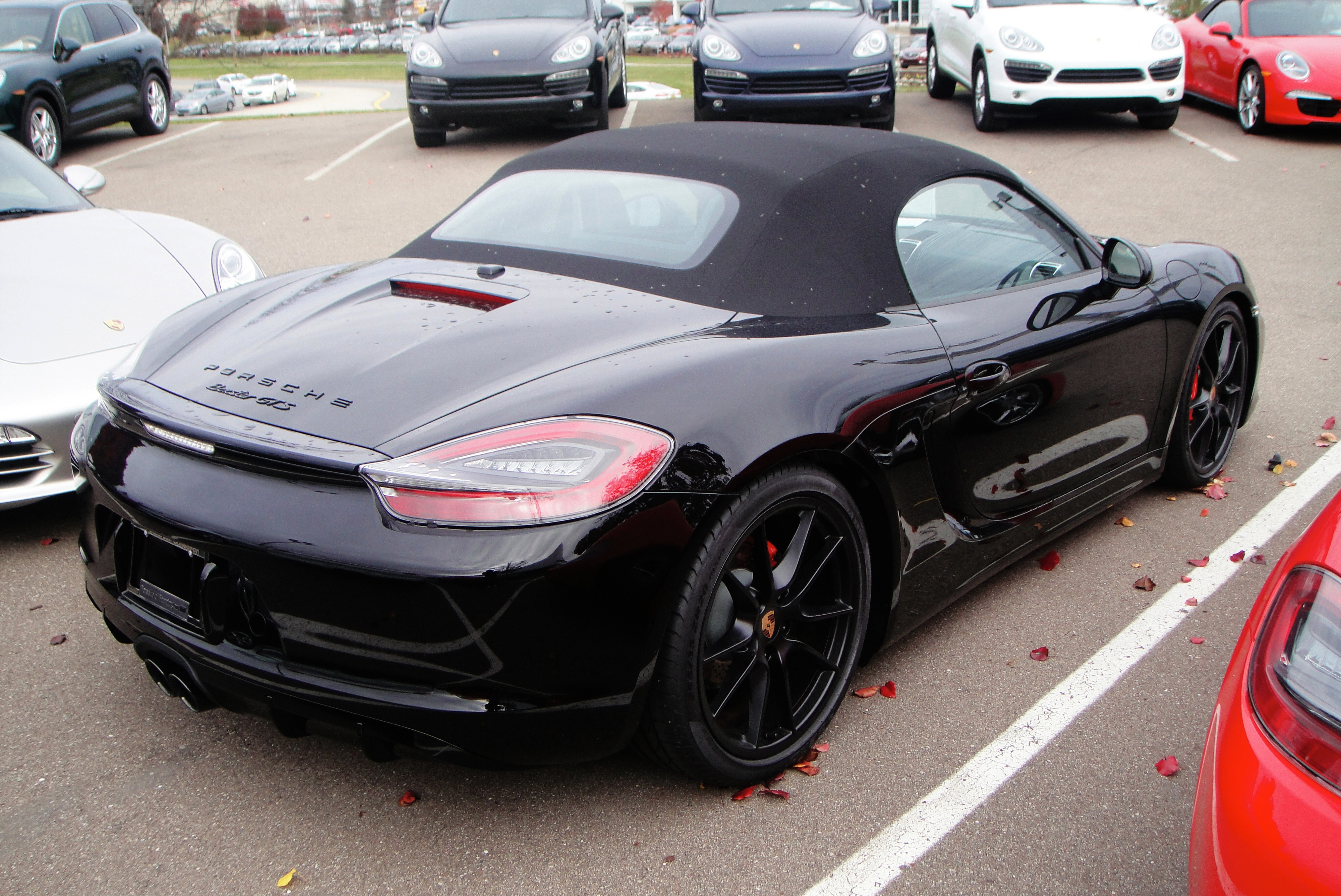 A black Porsche Boxster (981) GTS.